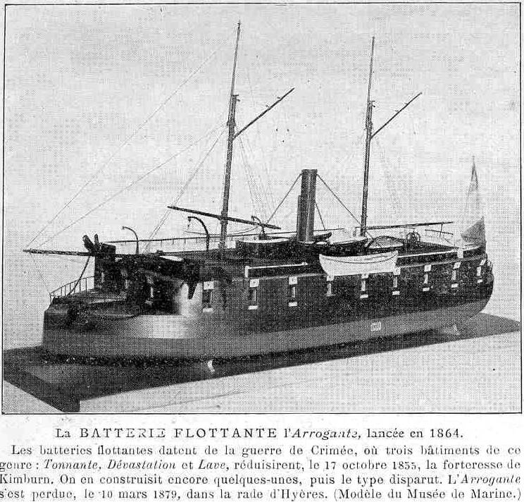 Armoured floating battery Arrogante_1864; Paris, France : Librairie Larousse, 1913